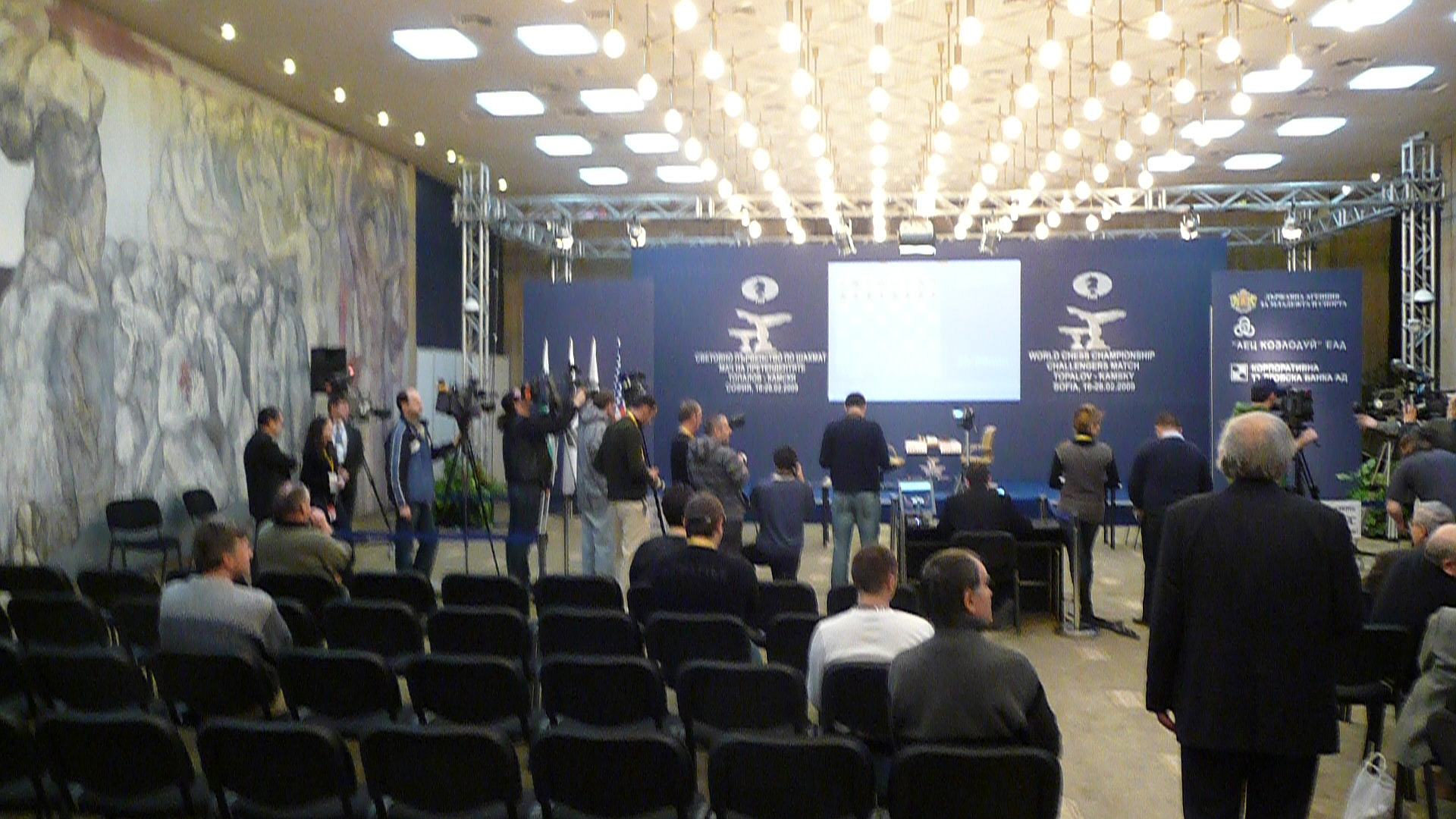 World Chess Championship - Challengers Match Topalov - Kamsky in Sofia, Bulgaria, 2009: Round 2 Picture. Journalists are getting ready for the entering of competitors.